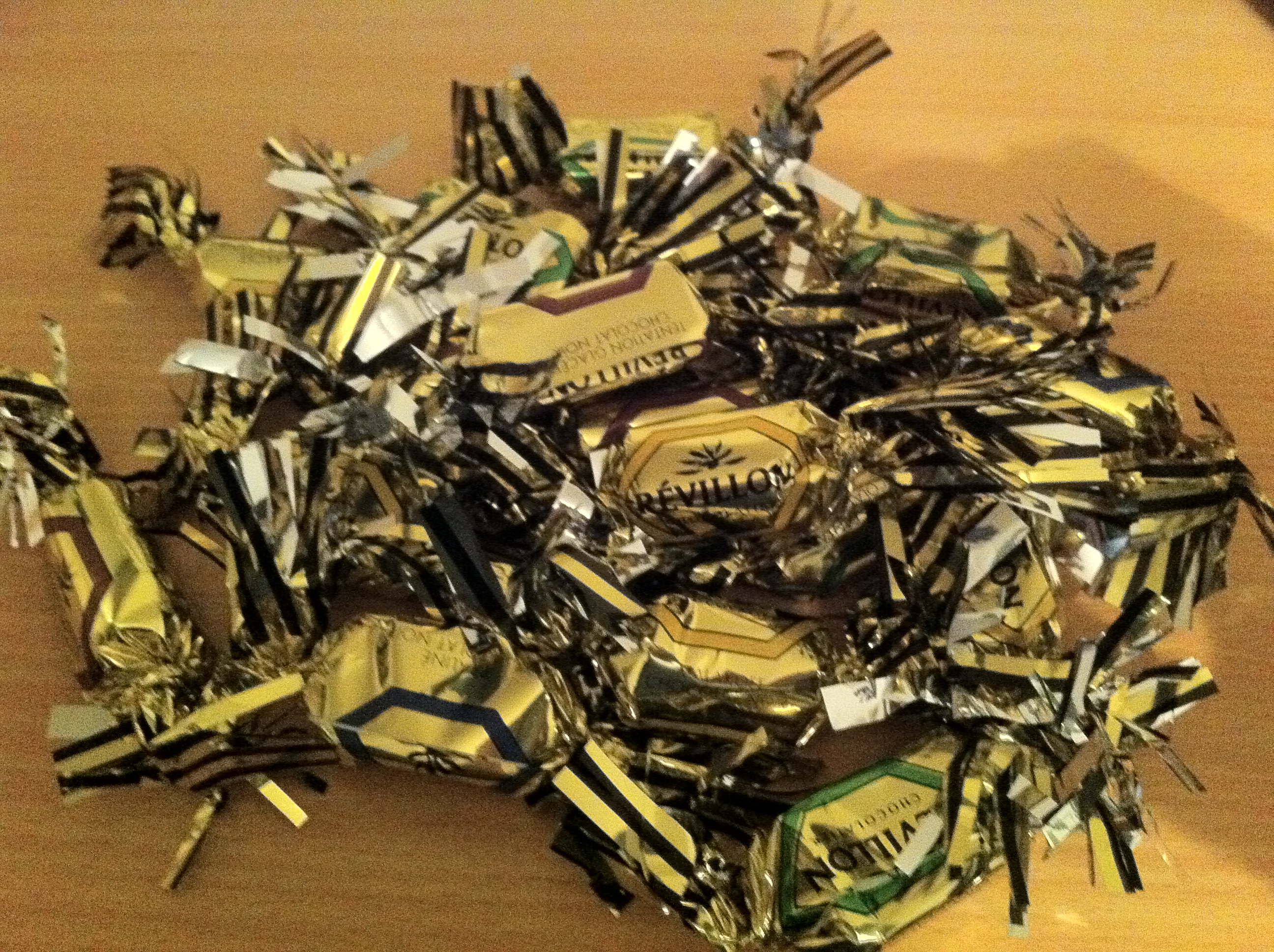 Chocolate papillotes from Lyon, France